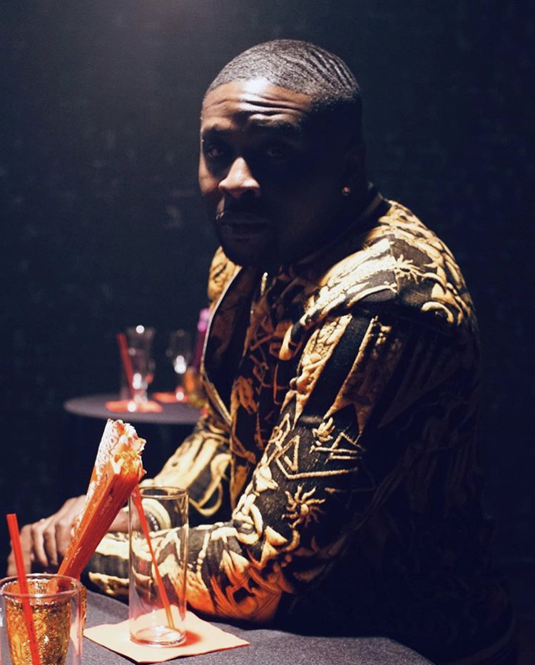 Harmony Samuels, Music Producer, Musician, Song Writer